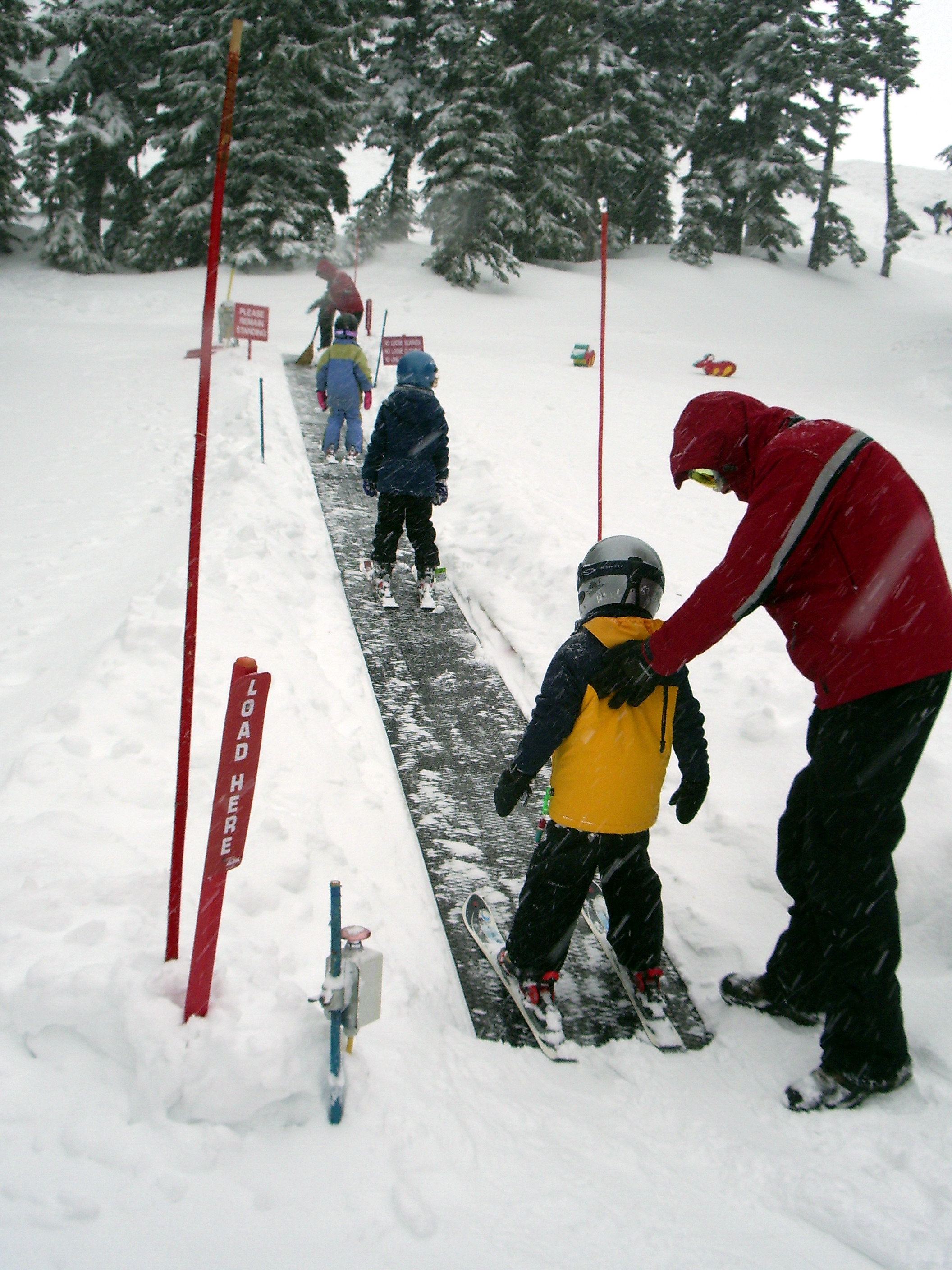 This magic carpet is a favorite with young shredders. Attendants at the bottom and top assist loading and unloading. The lower emergency stop switch is clearly visible. The orange markers guide snow grooming machinery away from the subsurface mechanism.